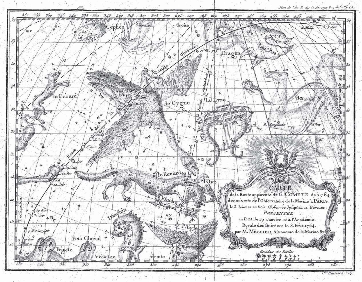 Star chart with the observed path of the comet of 1764, according to Messier’s positional measurements.